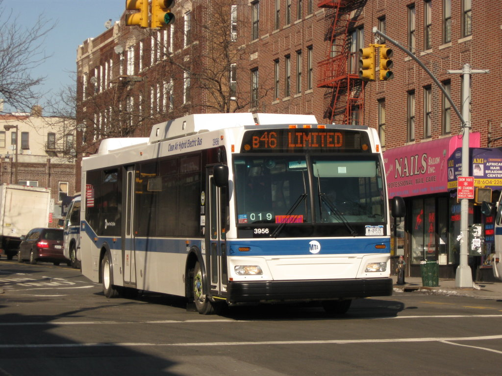 MTA New York City Bus #3956 operates through Crown Heights, Brooklyn, on the B46 line.